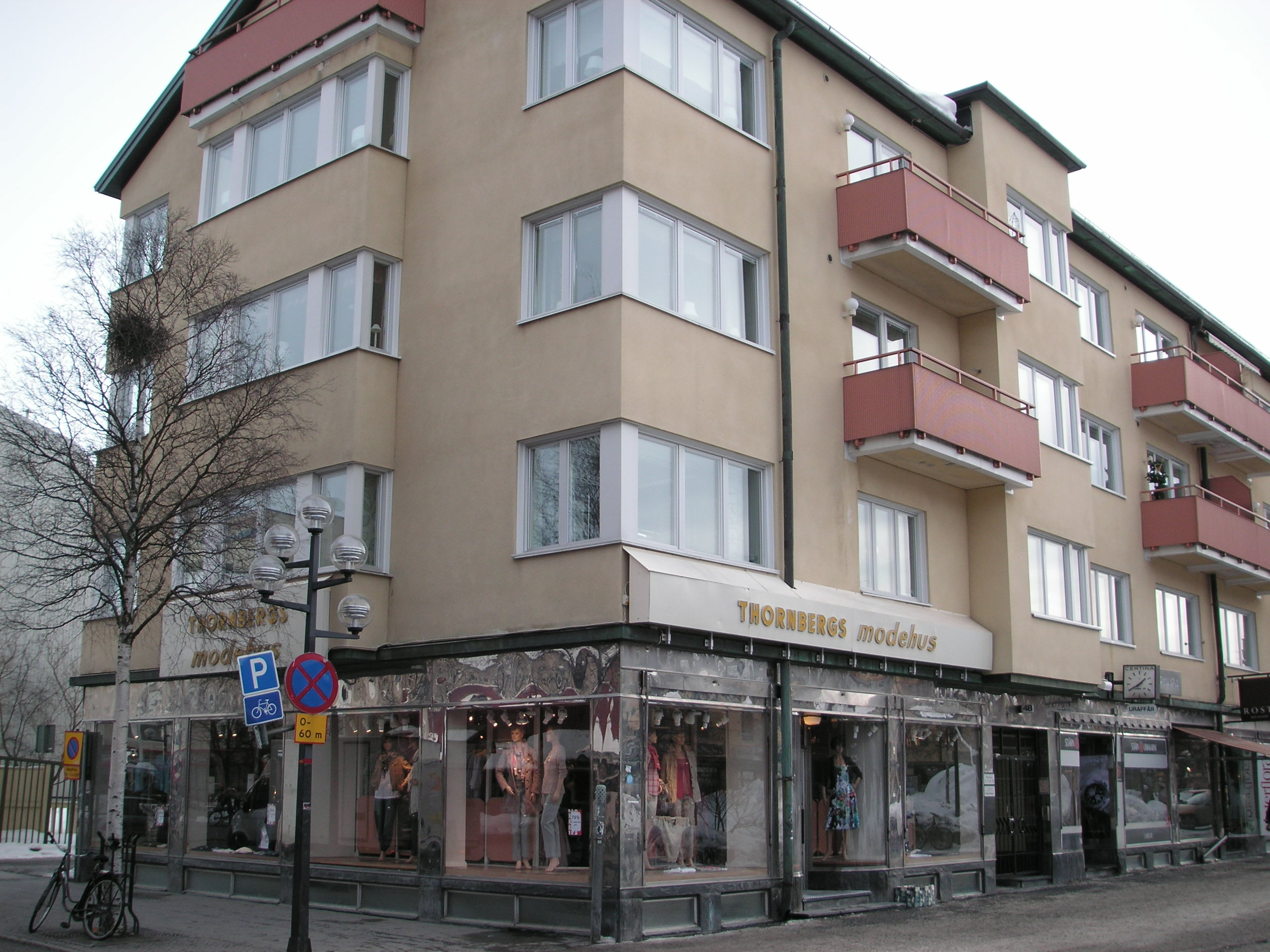 "Thornberska" building in Umeå, Sweden